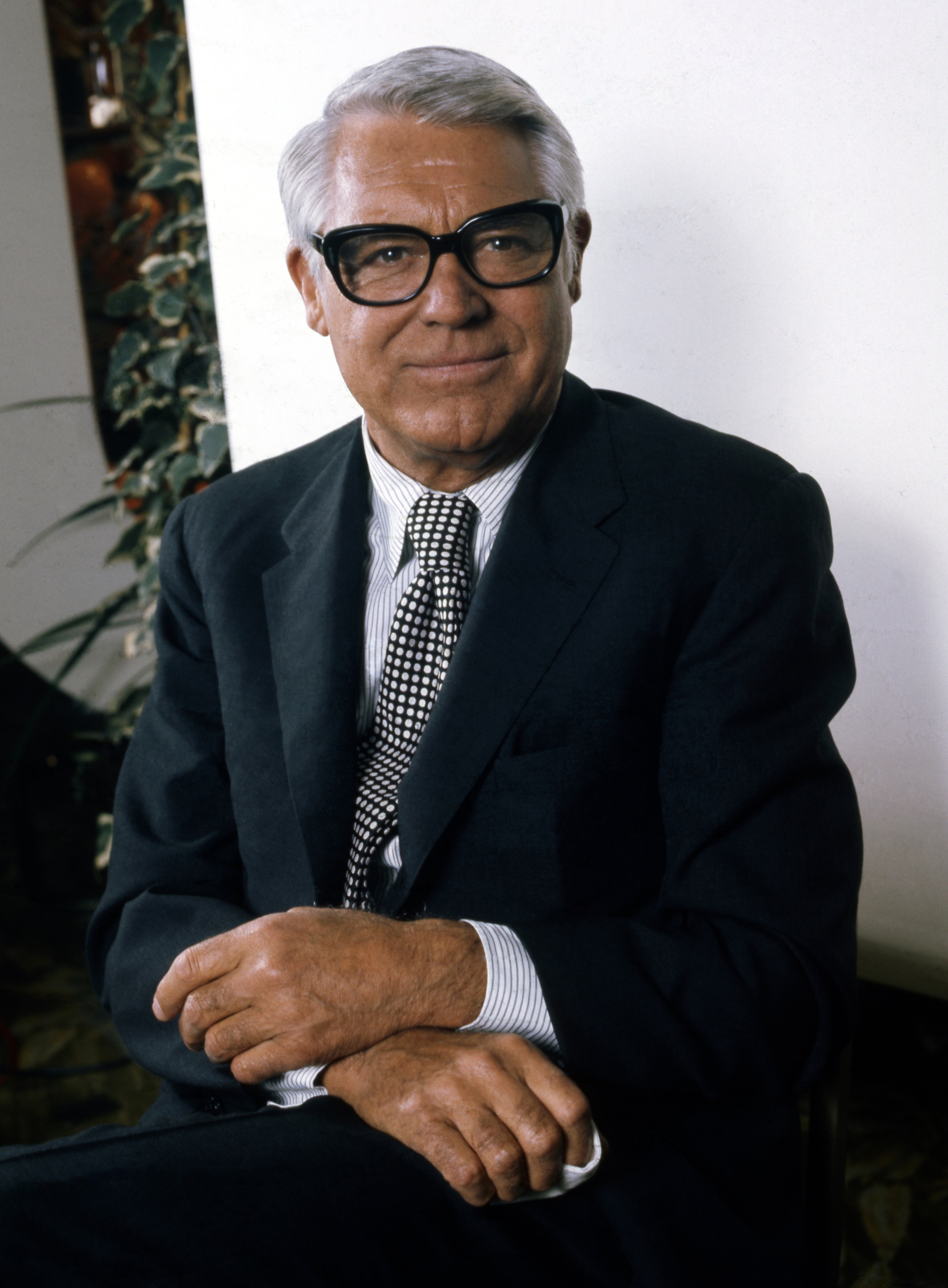 Cary Grant wearing glasses. Taken in london.